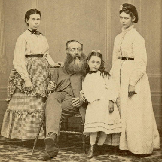 Item A-08314 - Susan, Josephine and Mary Crease with their father, Henry Crease, New Westminster.